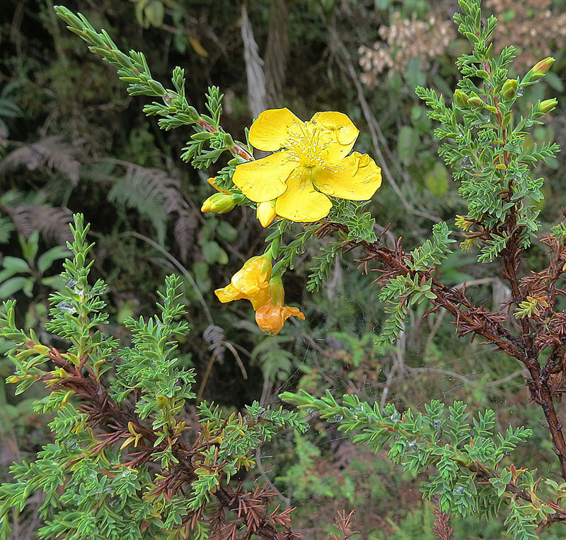 Romarillo, above Papallacta Hotsprings in the mountains of northern Ecuador. Found in paramos of the northern Andes. In context at